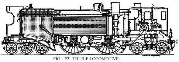 Thuile locomotive